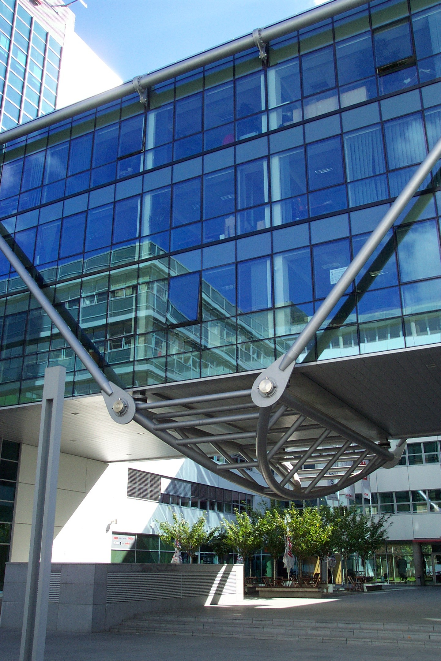 Prague-Smíchov, Anděl Media Centrum, a new office block.